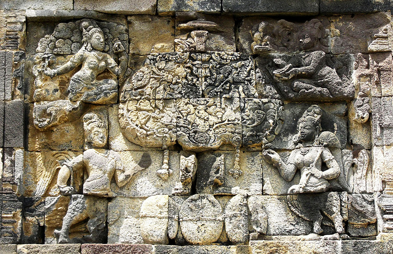 Kalpataru, the divine tree of life. Wish-fulfilling bountiful tree, being guarded by mythical creatures Kinnara and Kinnari, also divine beings; Apsara and Devata. This bas-relief is adorned wall of Pawon temple, an 8th century small shrine between Borobudur and Mendut temple, Java, Indonesia.